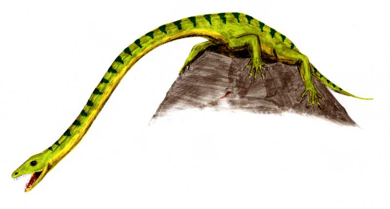 Tanystropheus, pencil drawing